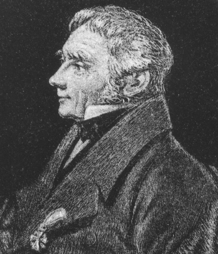 Morten Wormskjold. Portrait painted on glass